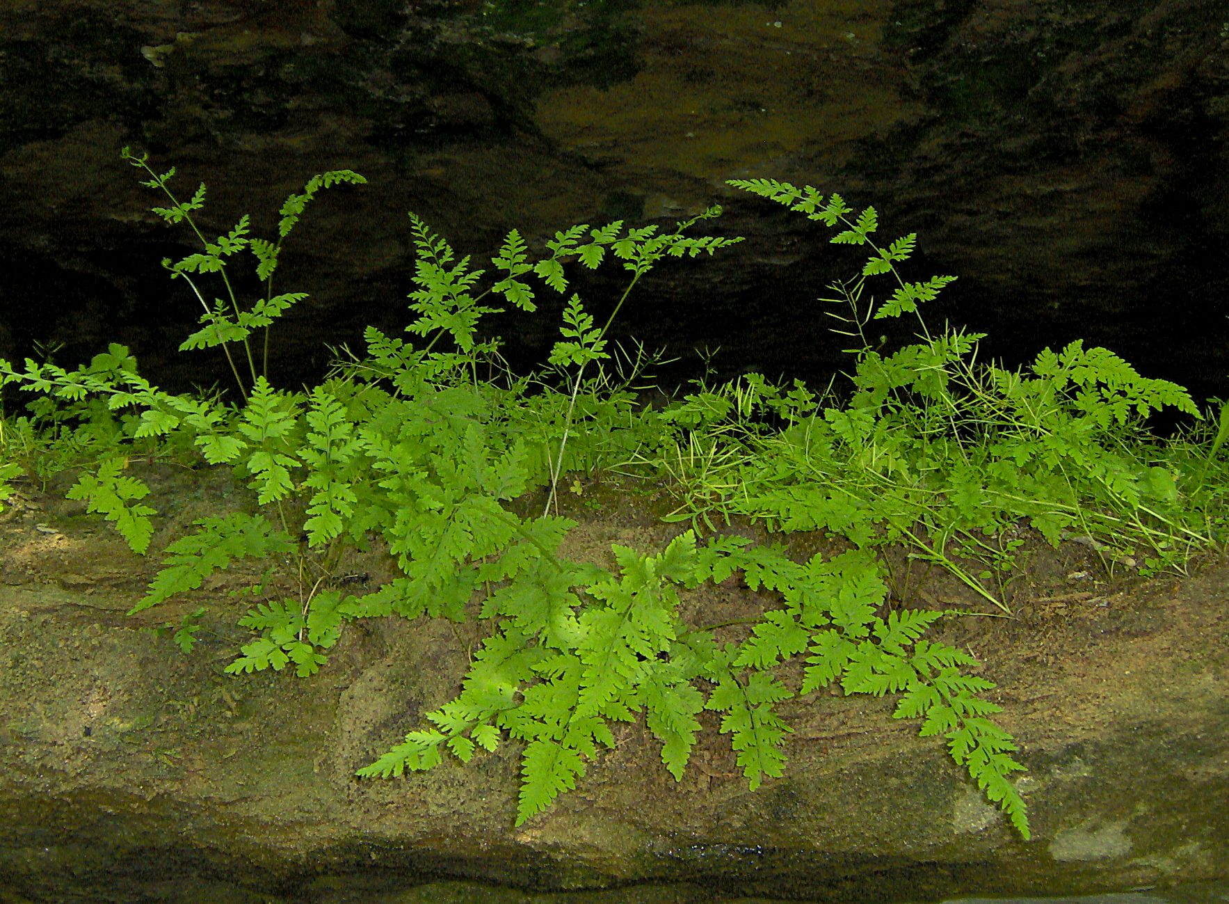 Cystopteris tenuis growing in its natural habitat along Long Run, Canaan Township, near Athens, Ohio